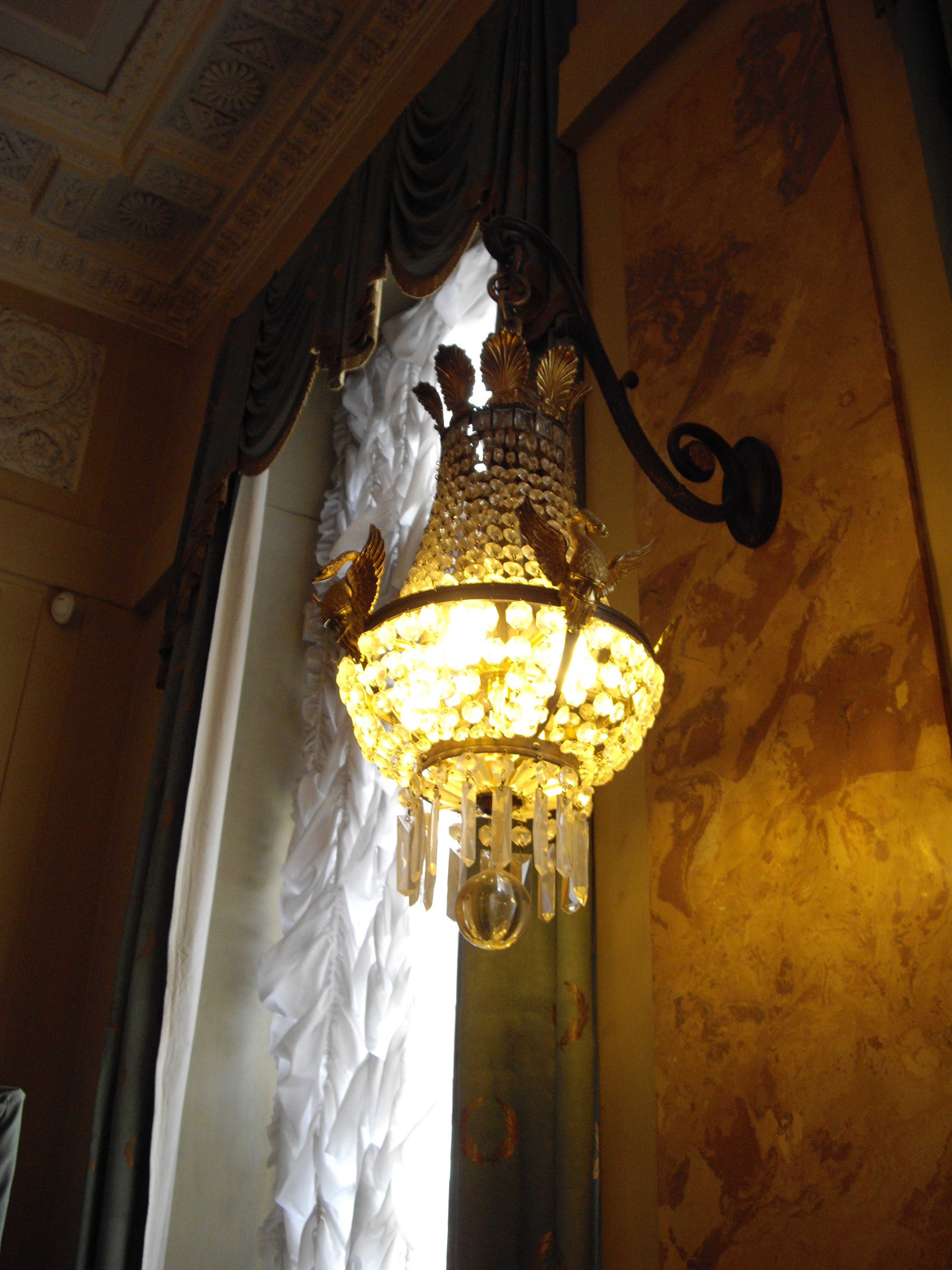 A wall lamp in the Art Nouveau style in the mansion of Mathilde Kschessinska.